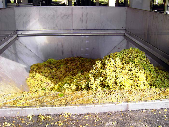 Grapes - Peza Union, Crete, Greece